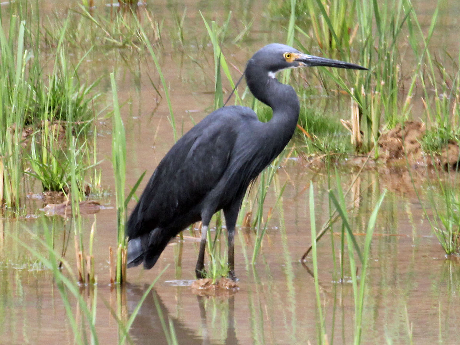 Dimorphic Egret (Egretta dimorpha) at Parc Tsarasaotra, an open bird sanctury in Antananrivo, Madagascar. Sometimes considered Egretta garzetta dimorpha - a subspecies of the Little Egret.